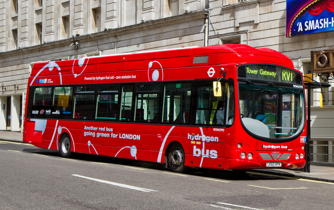 First London bus WSH62995 (reg. LK60 HPN), a hydrogen fuel cell powered VDL SB200 single decker with Wrightbus Pulsar bodywork. It is one of the Transport for London 2010 VDL Wrightbus fuel cell trial buses, operating London Buses route RV1. It is pictured at the terminus in Covent Garden Catherine Street, standing at the stop outside the Novello Theatre, facing south, about to leave for Tower Gateway DLR station.